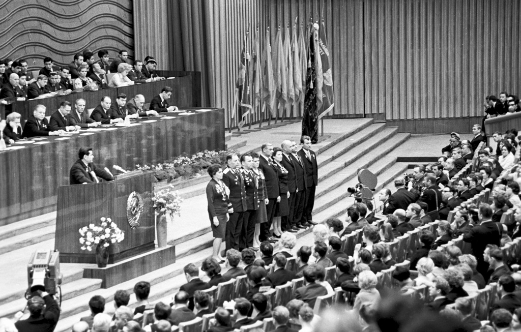 “Plenum of YCL Central Committee on 50th YCL anniversary”. A plenary meeting of the Central Committee of the Young Communist League (YCL), devoted to the 50th anniversary of the Leninist YCL. Executive Secretary of the Presidium of the Soviet War Veterans Committee Alexei Maresyev talking on behalf of YCL members of the 1940s, center.